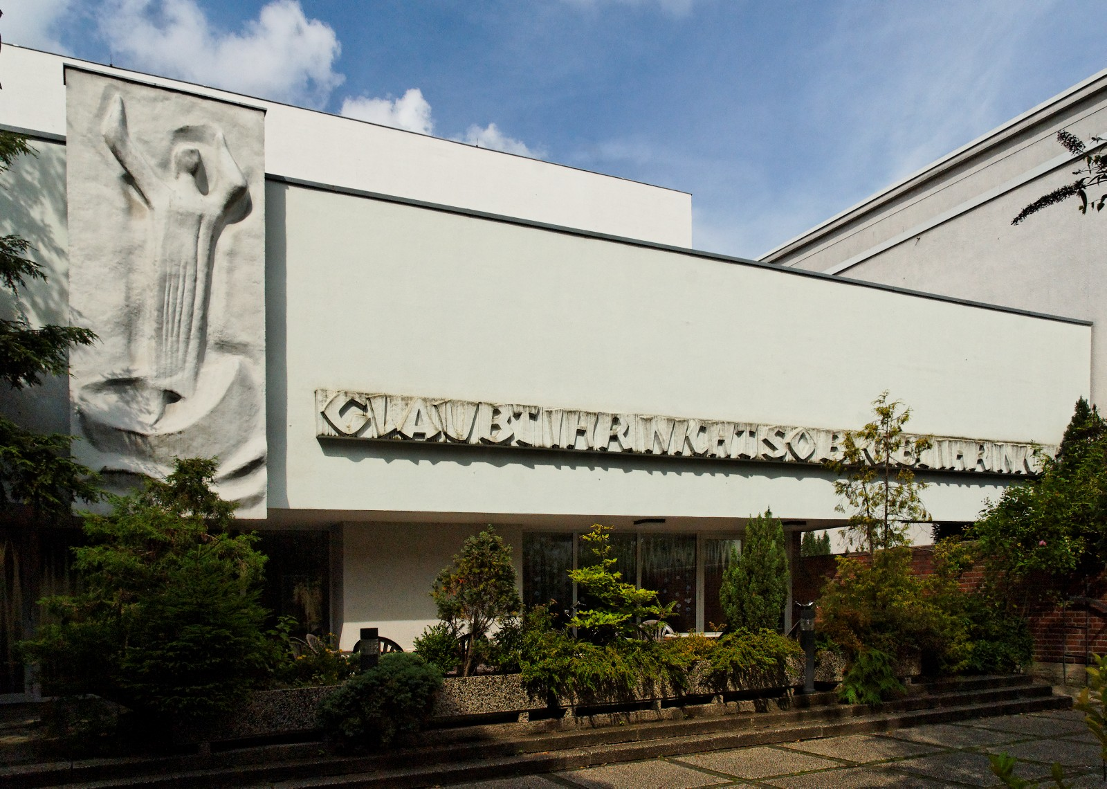 Immanuel Church in Düsseldorf-Friedrichstadt, Germany